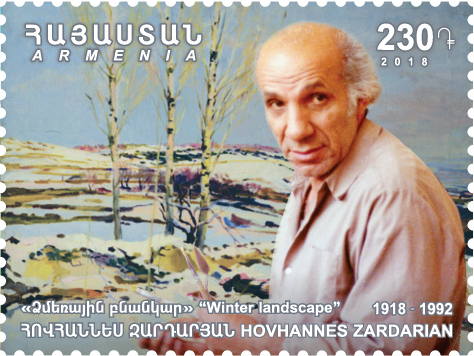 Photo of Hovhannes Zardaryan against the background of his painting Winter landscape.